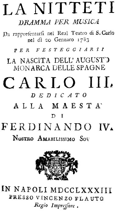 Giuseppe Curcio - La Nitteti - titlepage of the libretto - Naples 1783